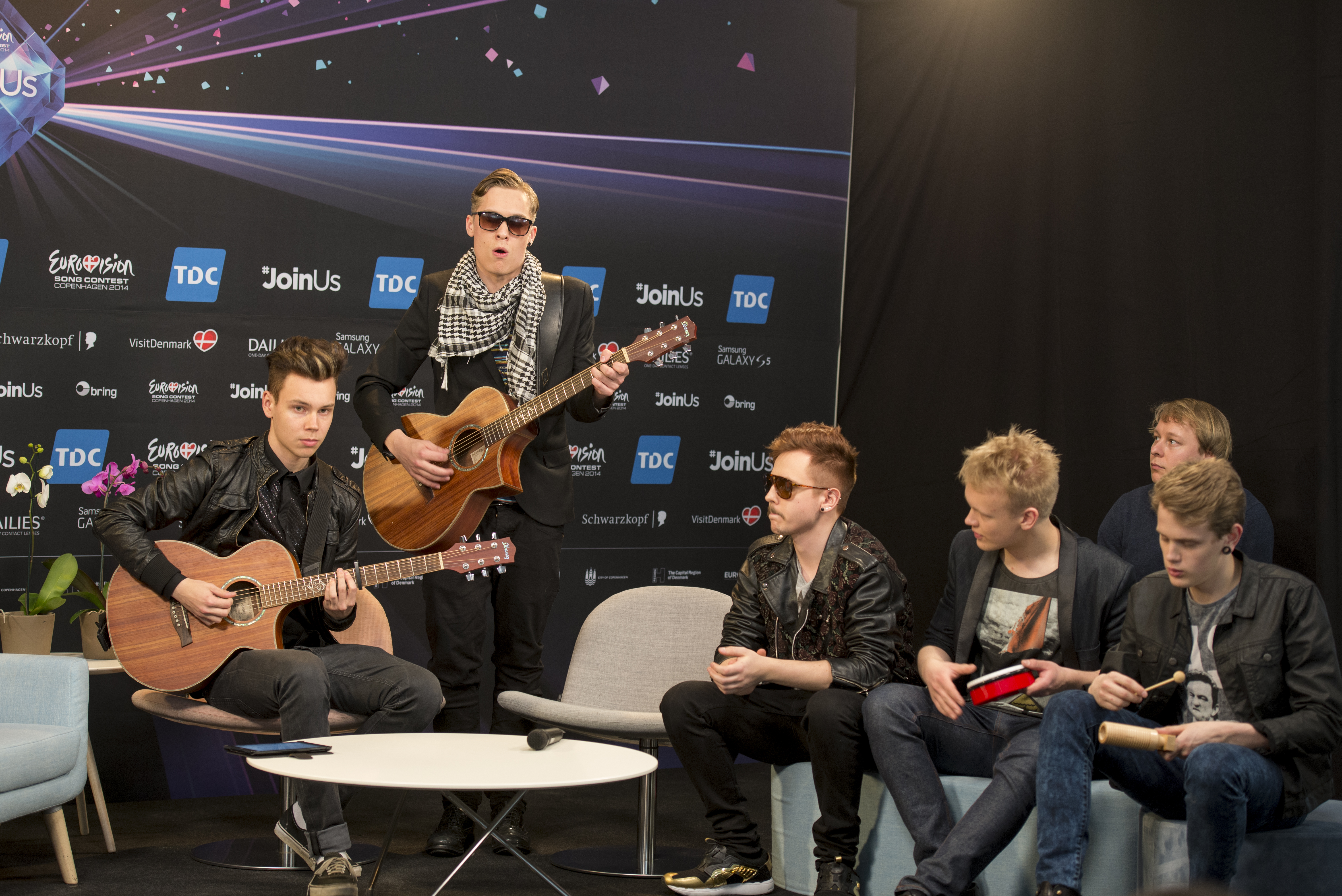 Softengine at a Meet & Greet during the Eurovision Song Contest 2014 Copenhagen. (Help translate this text)